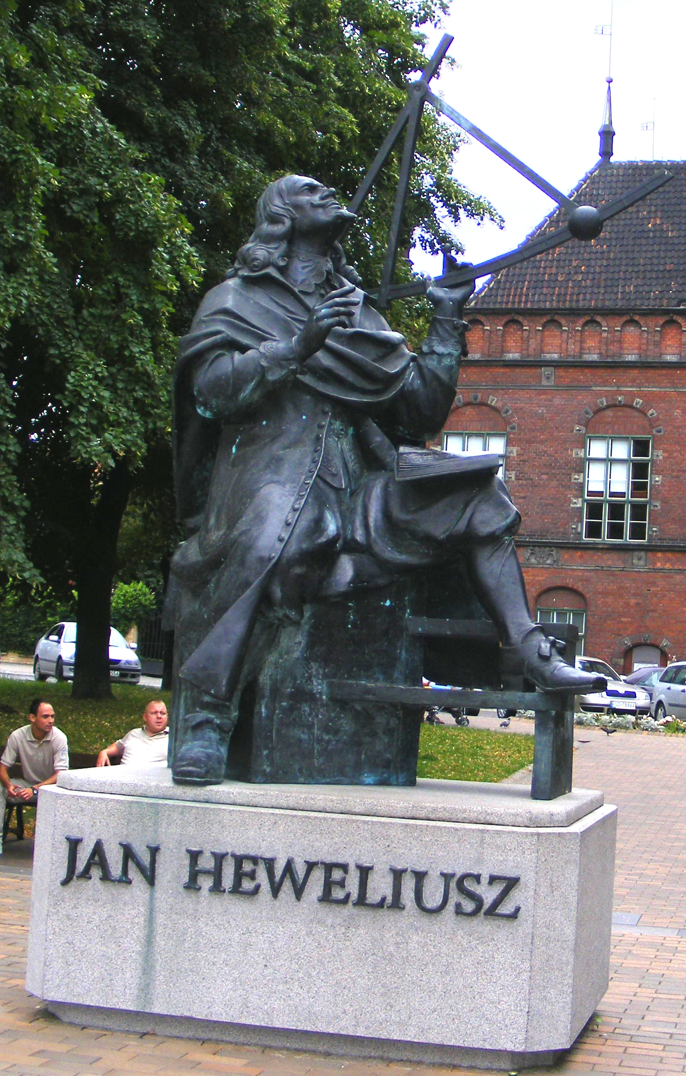 Jan Heweliusz monument in Gdańsk at ul. Korzenna street, unveiled on January 28, 2006. Sculpted by Jan Szczypka, graduate of the Gdańsk Academy of Fine Arts with numerous awards.